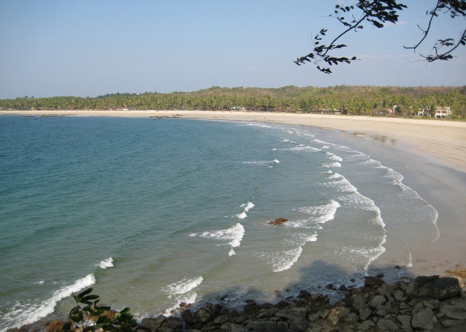 Ngwe Saung beach, Ayeyarwady Division